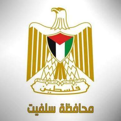 Salfit Governorate Logo